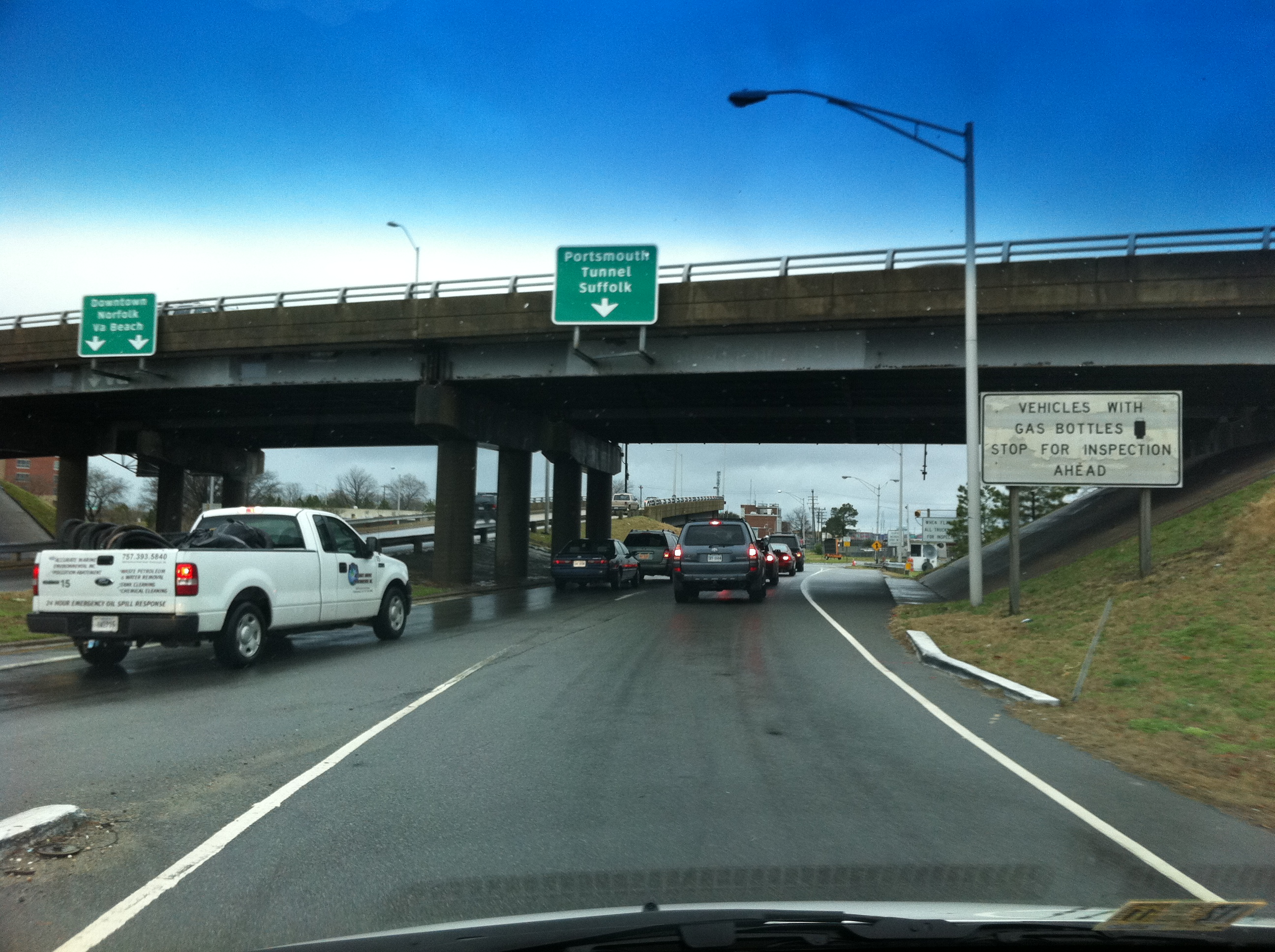 One reason why they're proceeding with a PPP for a second tube.